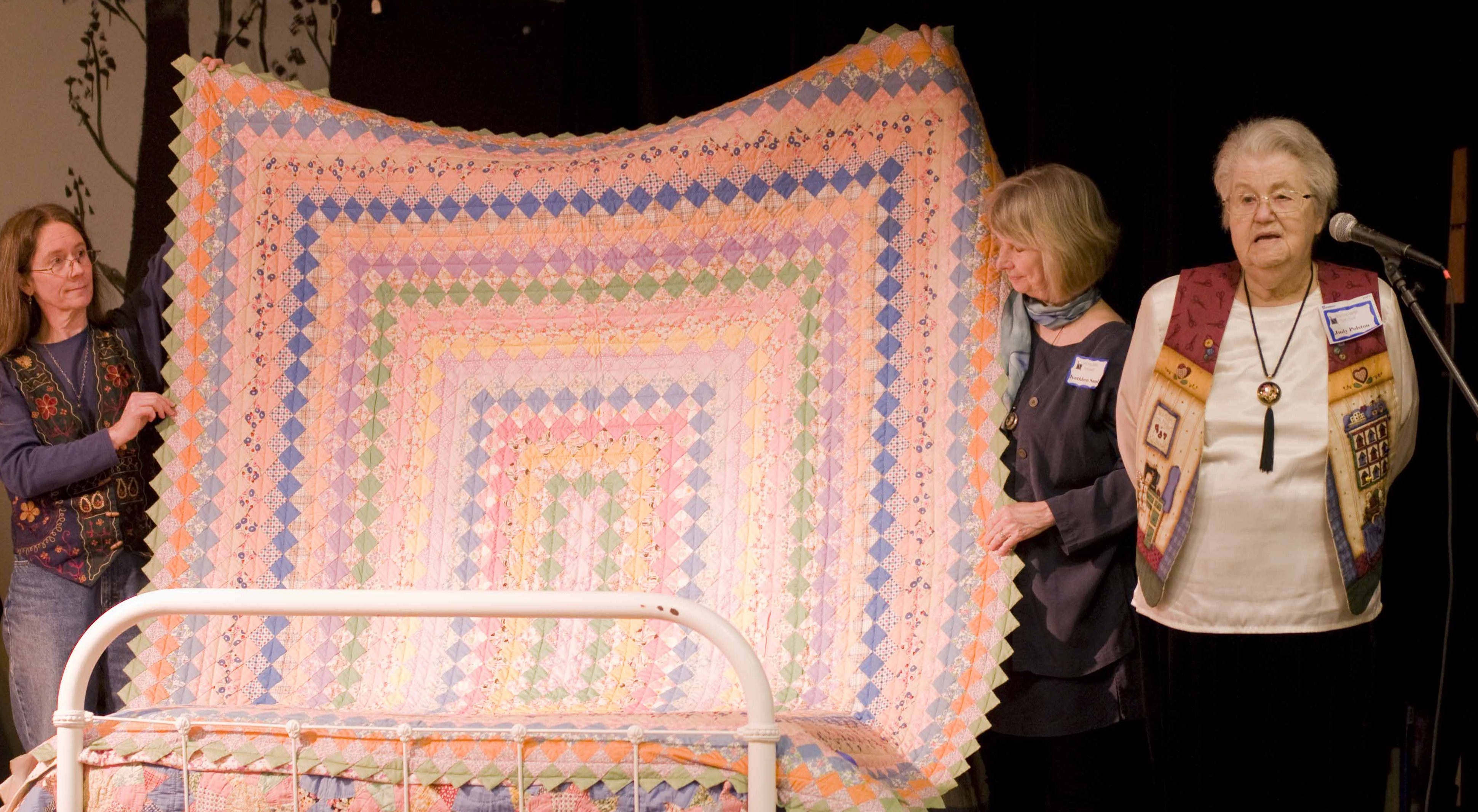 Bed Turning event at the “Stitching Stories” quilt festival, held in Yachats, OR, USA, in 2011